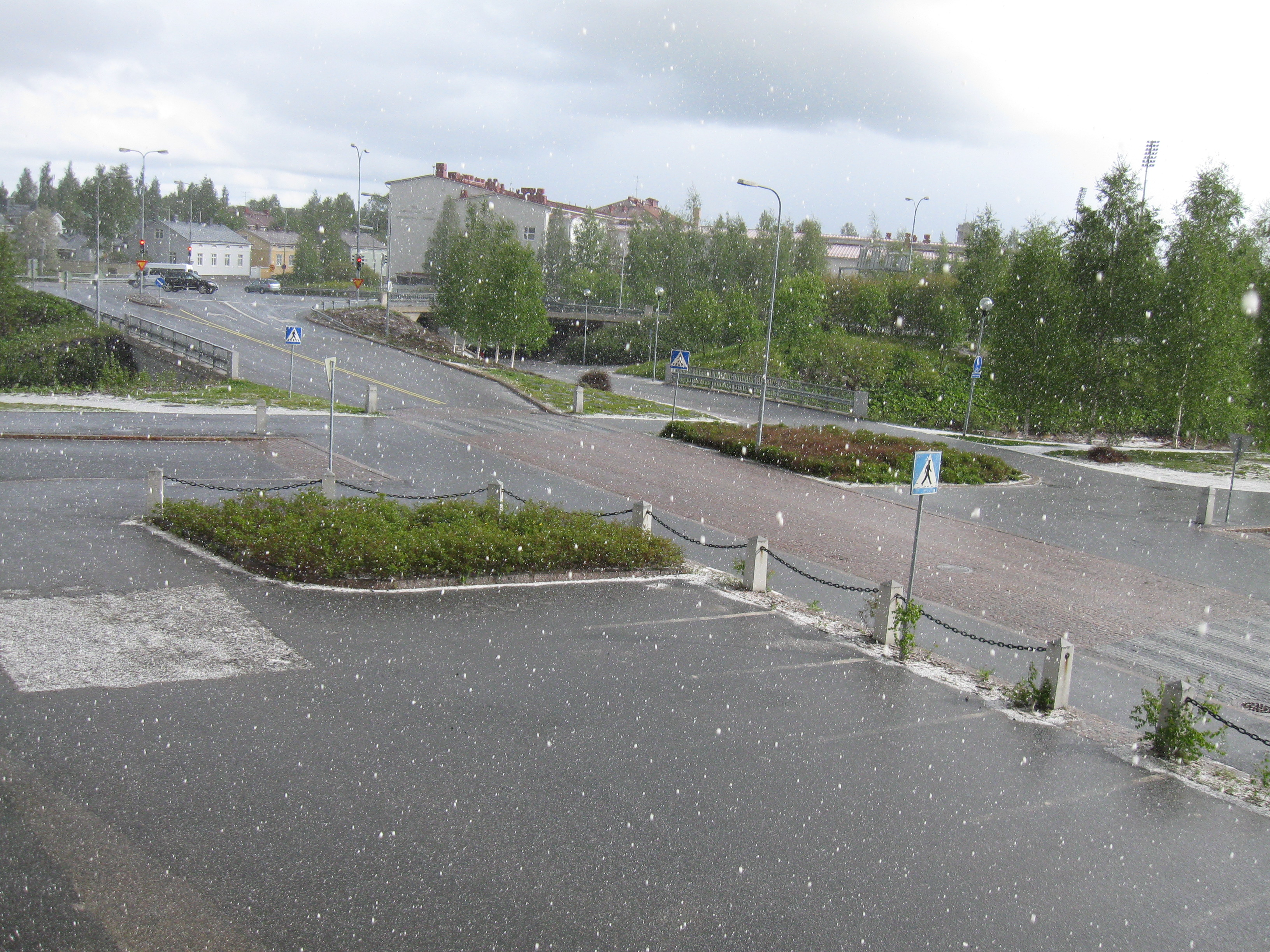 A hailstorm in early June in Karjasilta, Oulu, Finland. Wooden buildings of Raksila and Teuvo Pakkala school in the background.